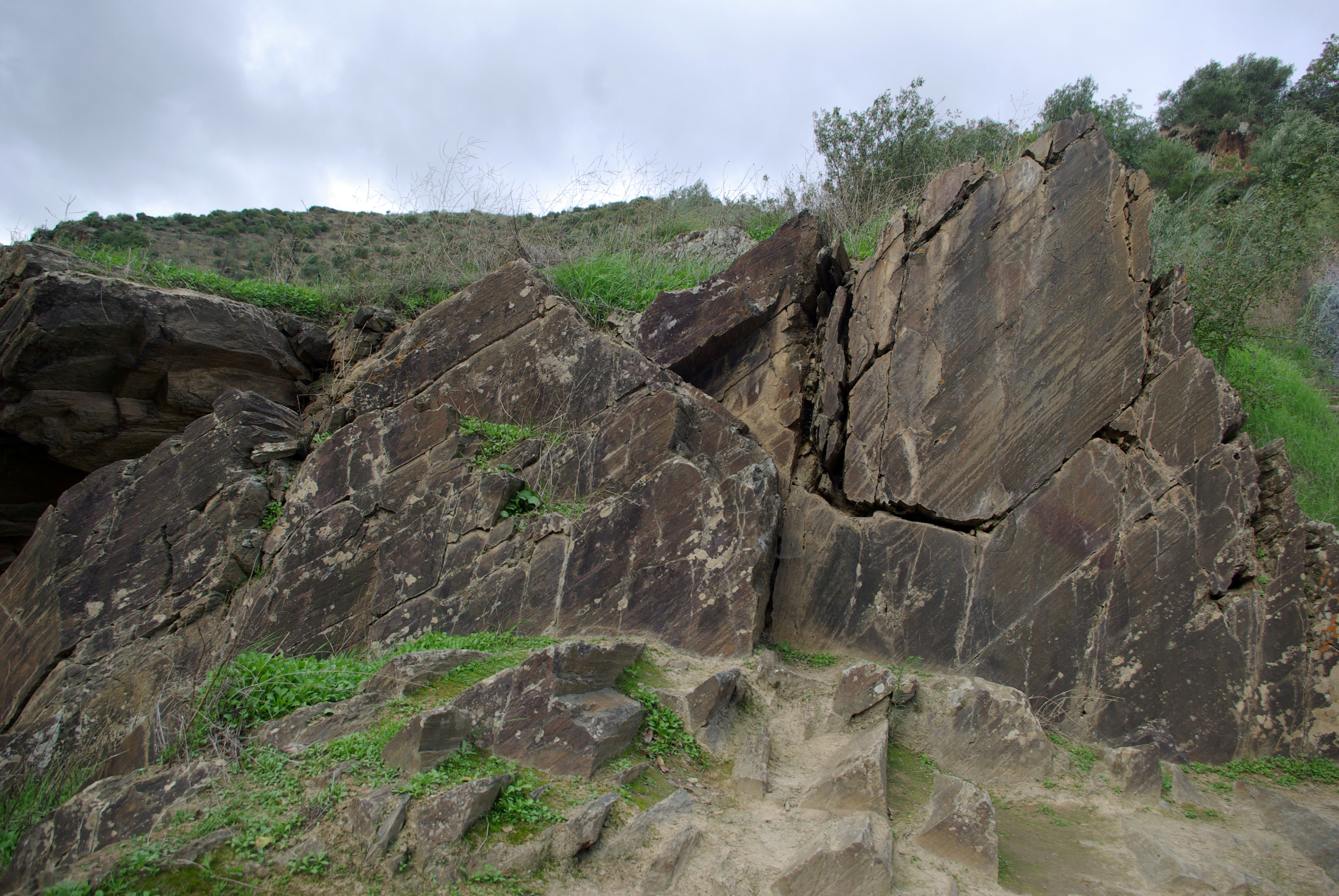 Prehistoric carvings in rock-art site of Canada do Inferno in Côa valley near Vila Nova de Foz Côa (Guarda, Portugal).